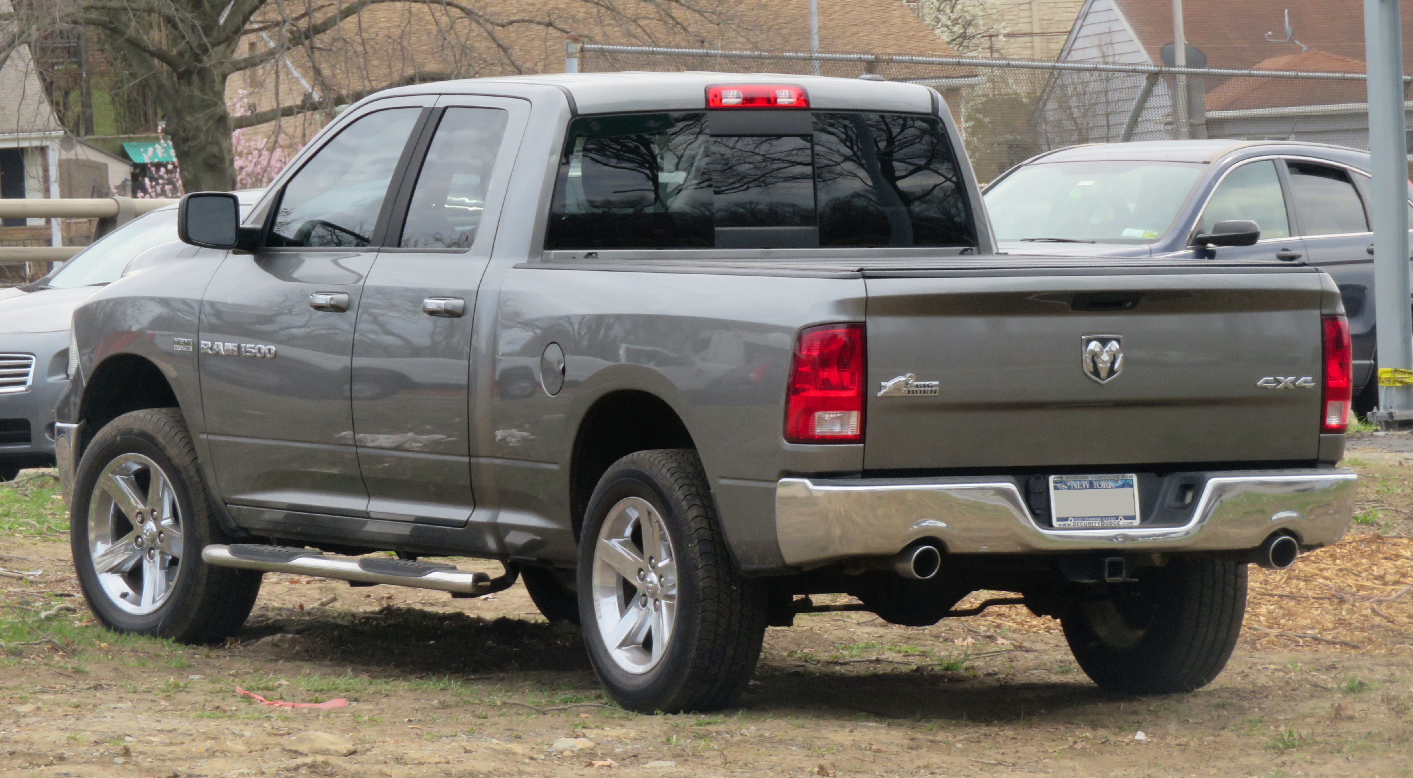 A 2012 Ram 1500 photographed in Kew Gardens Hills, Queens, New York, USA